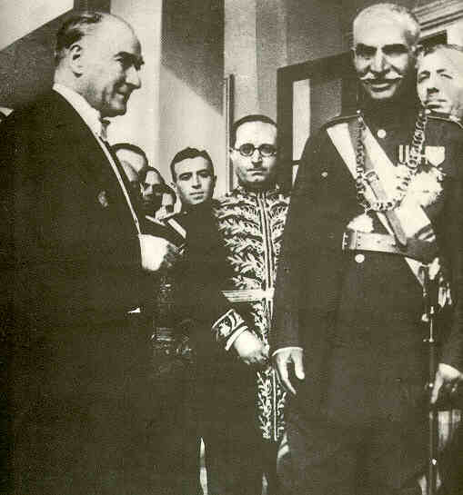 Rezā Shāh and Mustafa Kemal Atatürk in Çankaya Köşkü, 16 June 1934Türkçe: Rıza Pehlevi ile Mustafa Kemal Atatürk Çankaya Köşkü'nde, 16 Haziran 1934